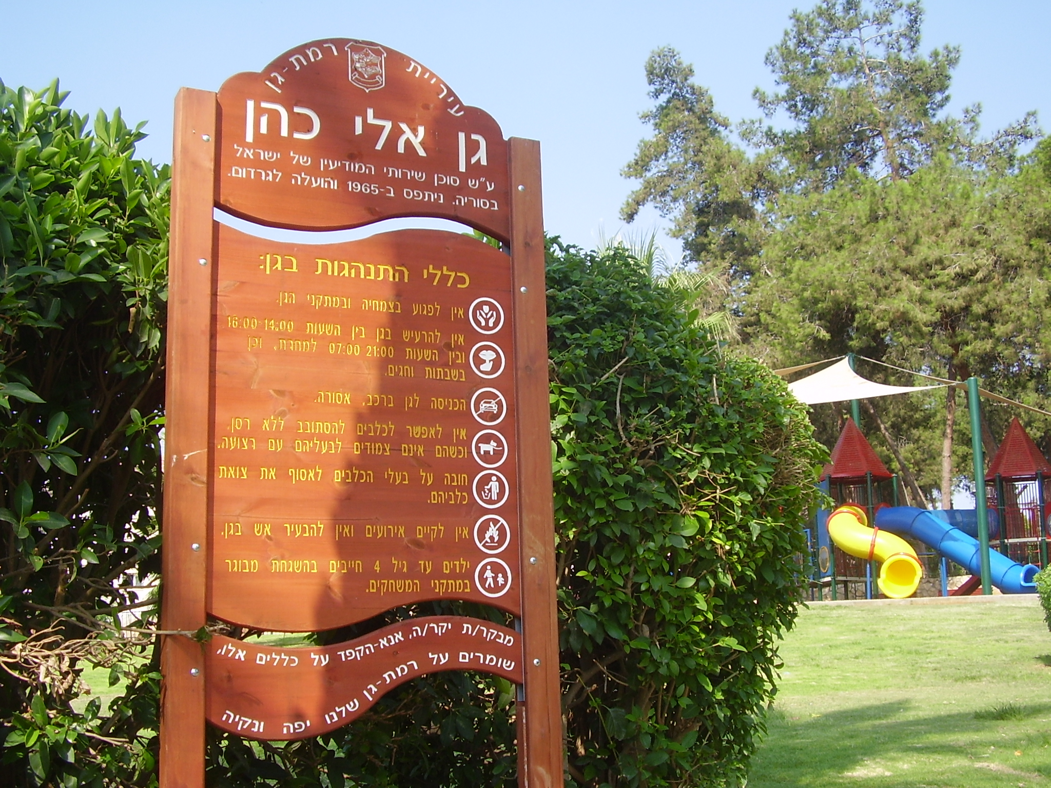 Eli Cohen garden in Ramat Amidar, Ramat Gan